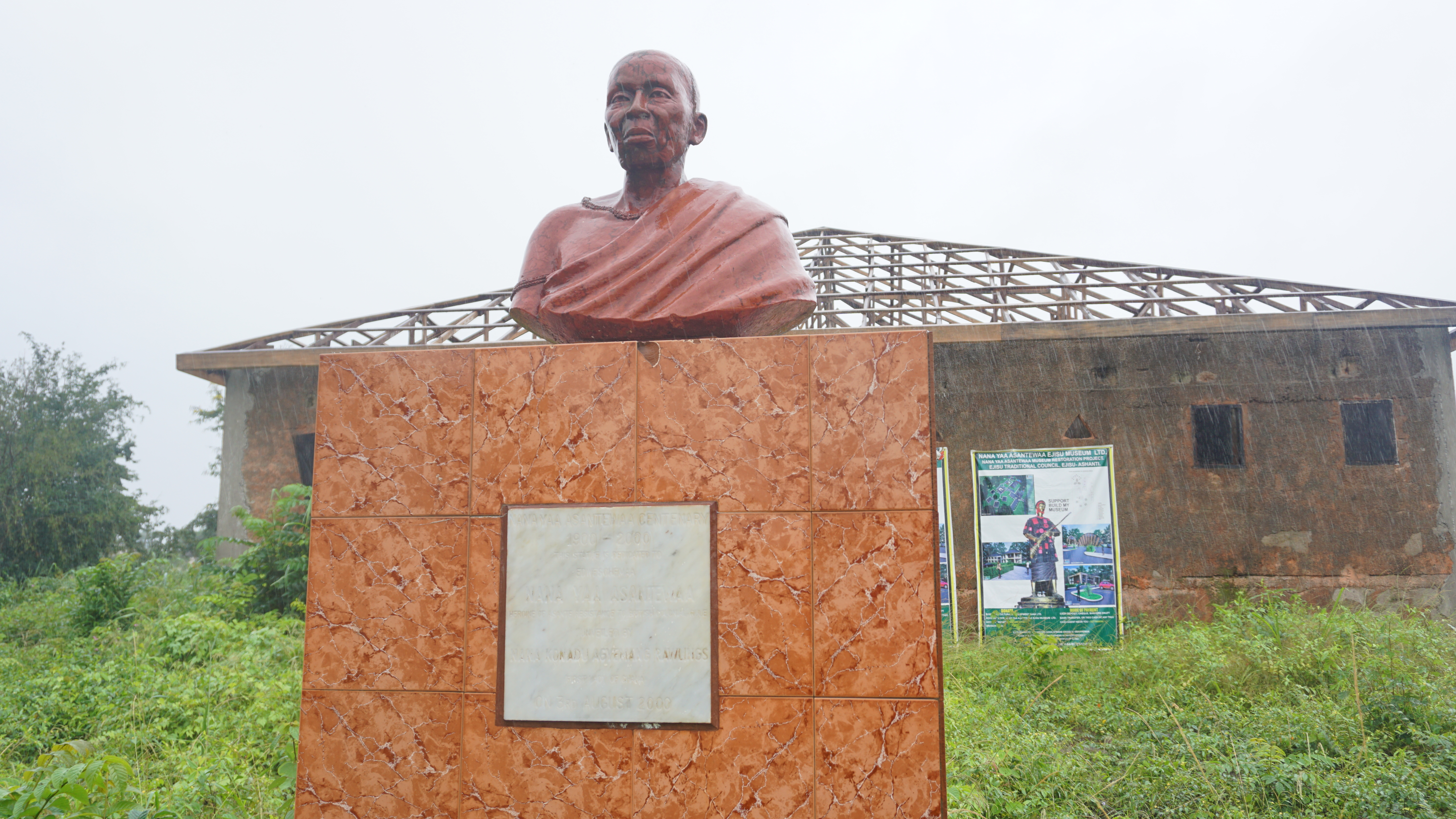 Yaa Asantewaa statue at the Yaa Asantewaa Museum locate at Ejisu.